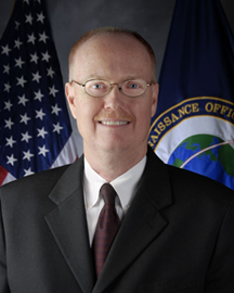 Photo of Scott F. Large, a Director of the National Reconnaissance Office of the United States of America.